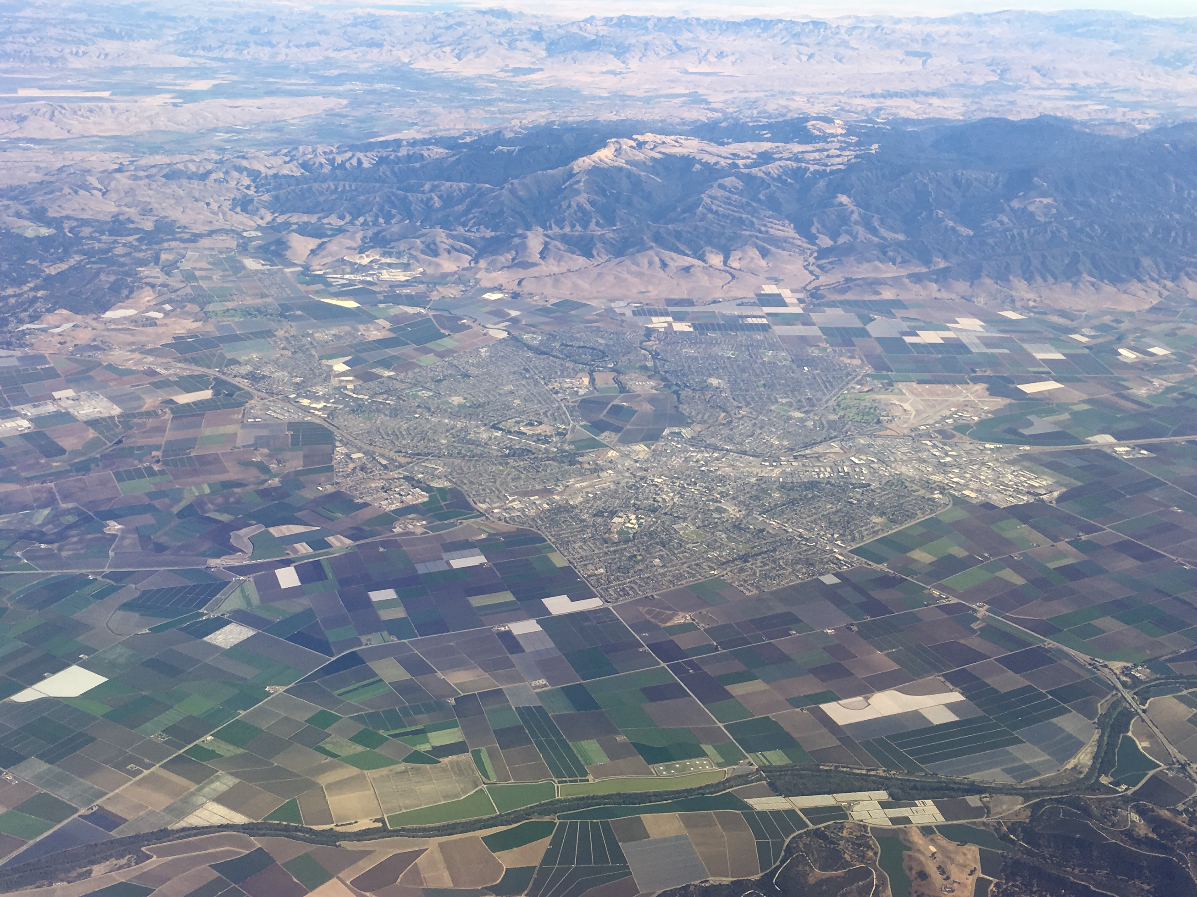 Salinas, California from above, with Fremont Peak and the Gabilan Mountain Range in the background